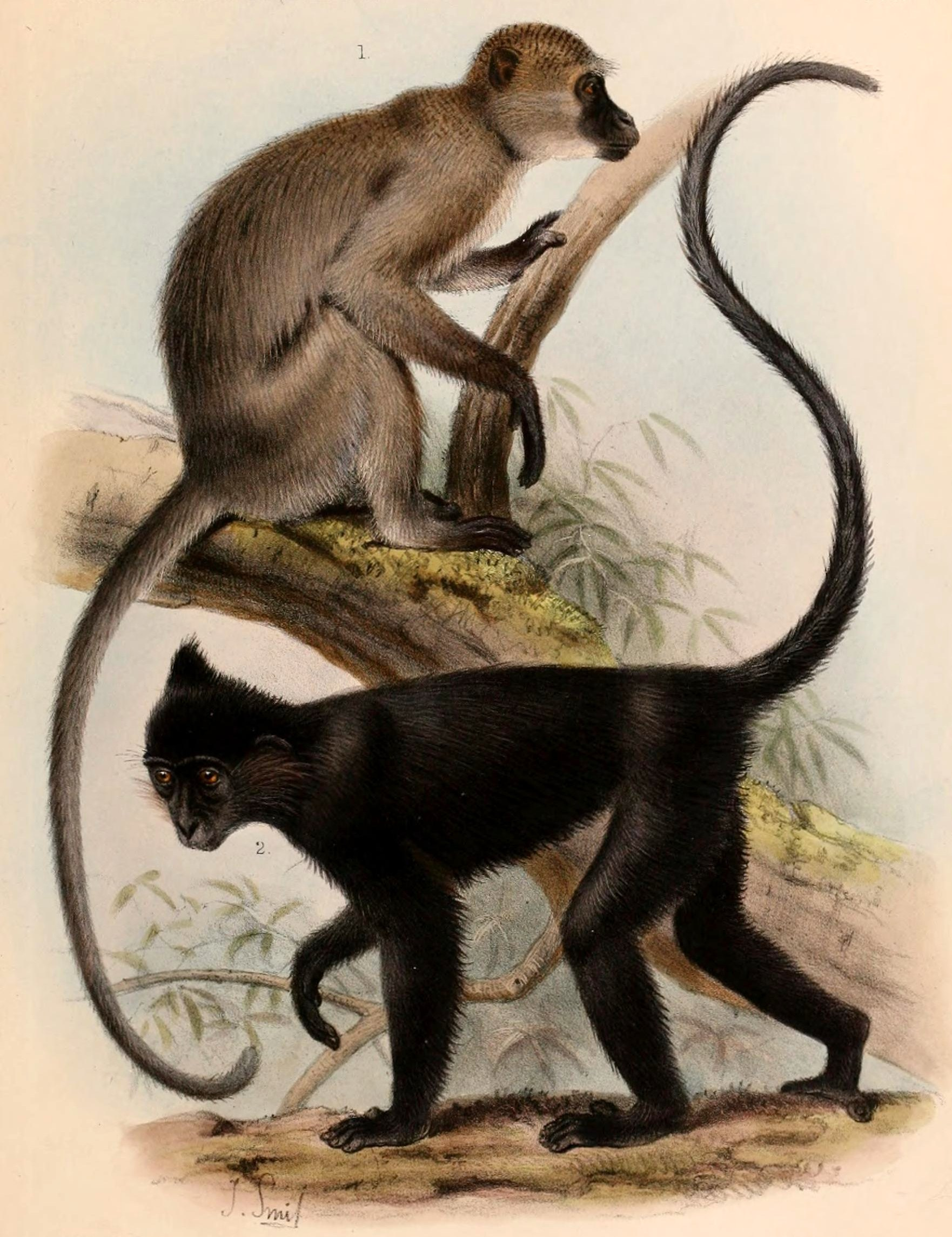 « Cercocebus hagenbecki » = Cercocebus agilis hagenbecki « Semnocebus albigena rothschildi » = Lophocebus aterrimus (Black crested mangabey)